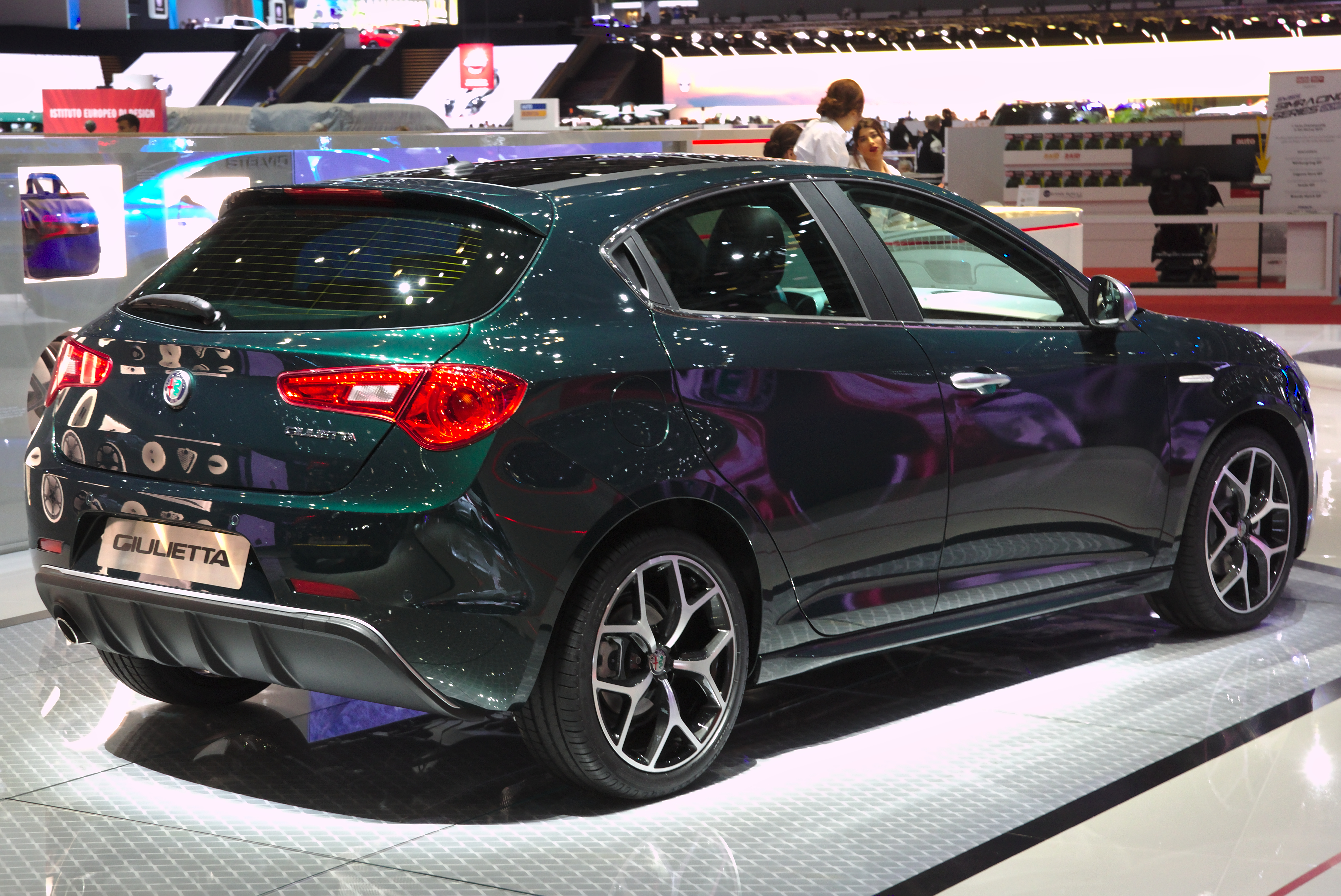 Alfa Romeo Giulietta at Geneva Motor Show 2019